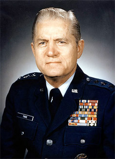 LTG Eugene F Tighe (June 19, 1921 – January 29, 1994), a former director of the Defense Intelligence Agency, Washington, D.C.